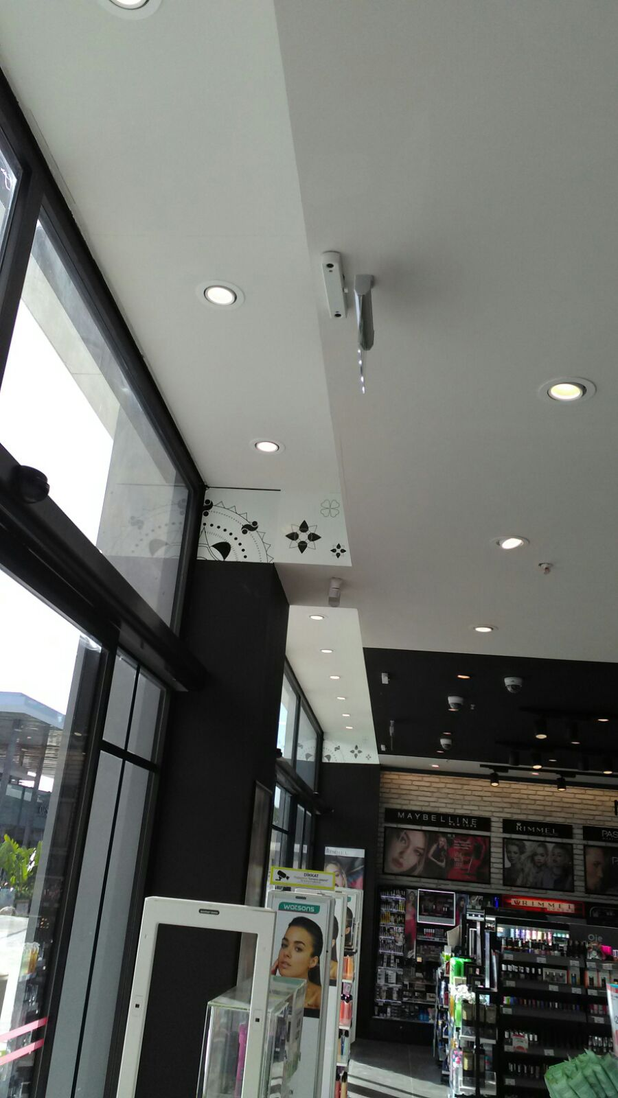 A people counter installed in the entrance of a retail store in Turkey.